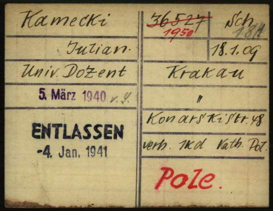 Registration card of Julian Kamecki as a prisoner at Dachau Nazi Concentration Camp.